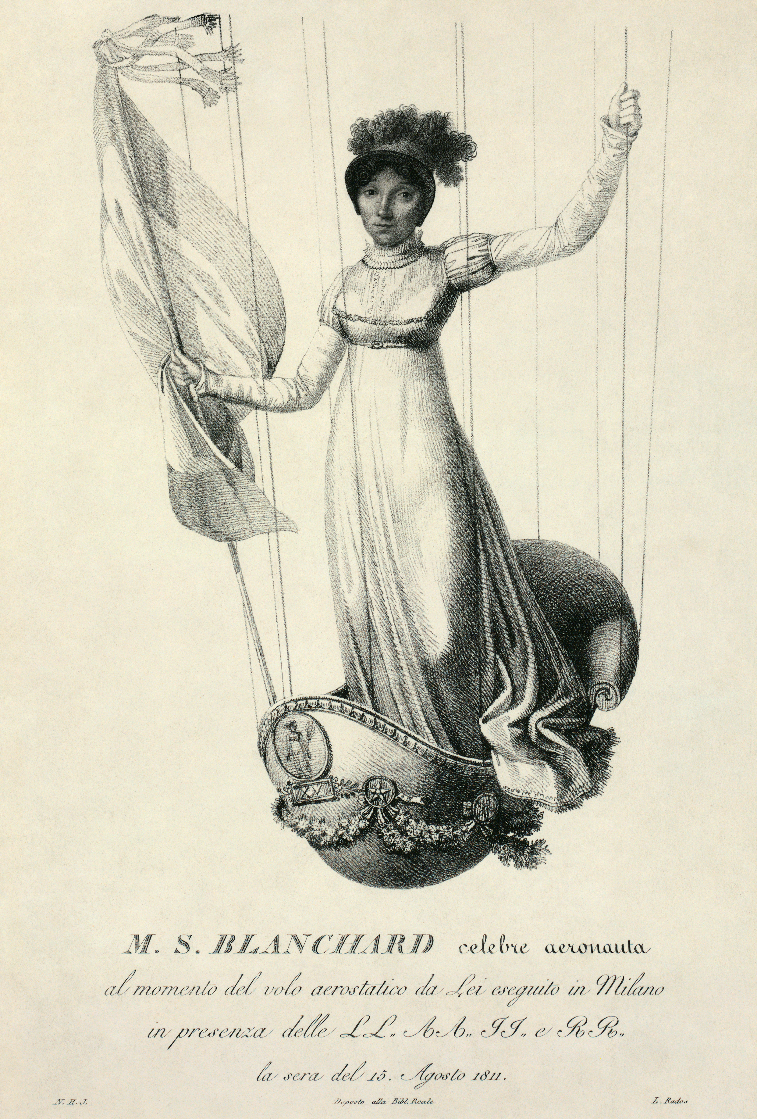 Portrait of French balloonist Sophie Blanchard standing in the decorated basket of her balloon during her flight in Milan, Italy, in 1811, in the presence of the imperial and royal highness.